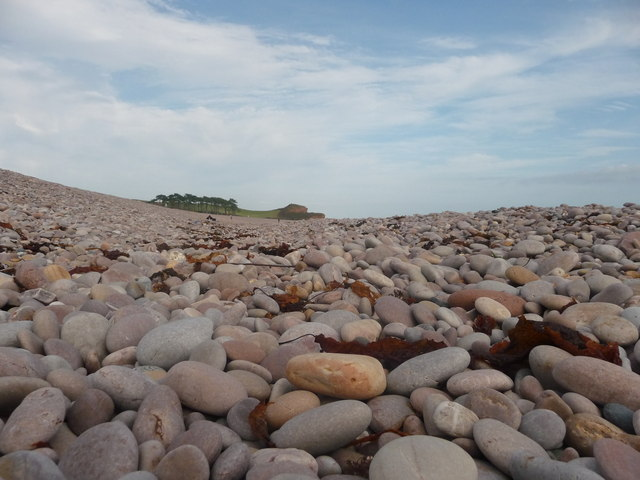 Budleigh Salterton : Pebbly Beach